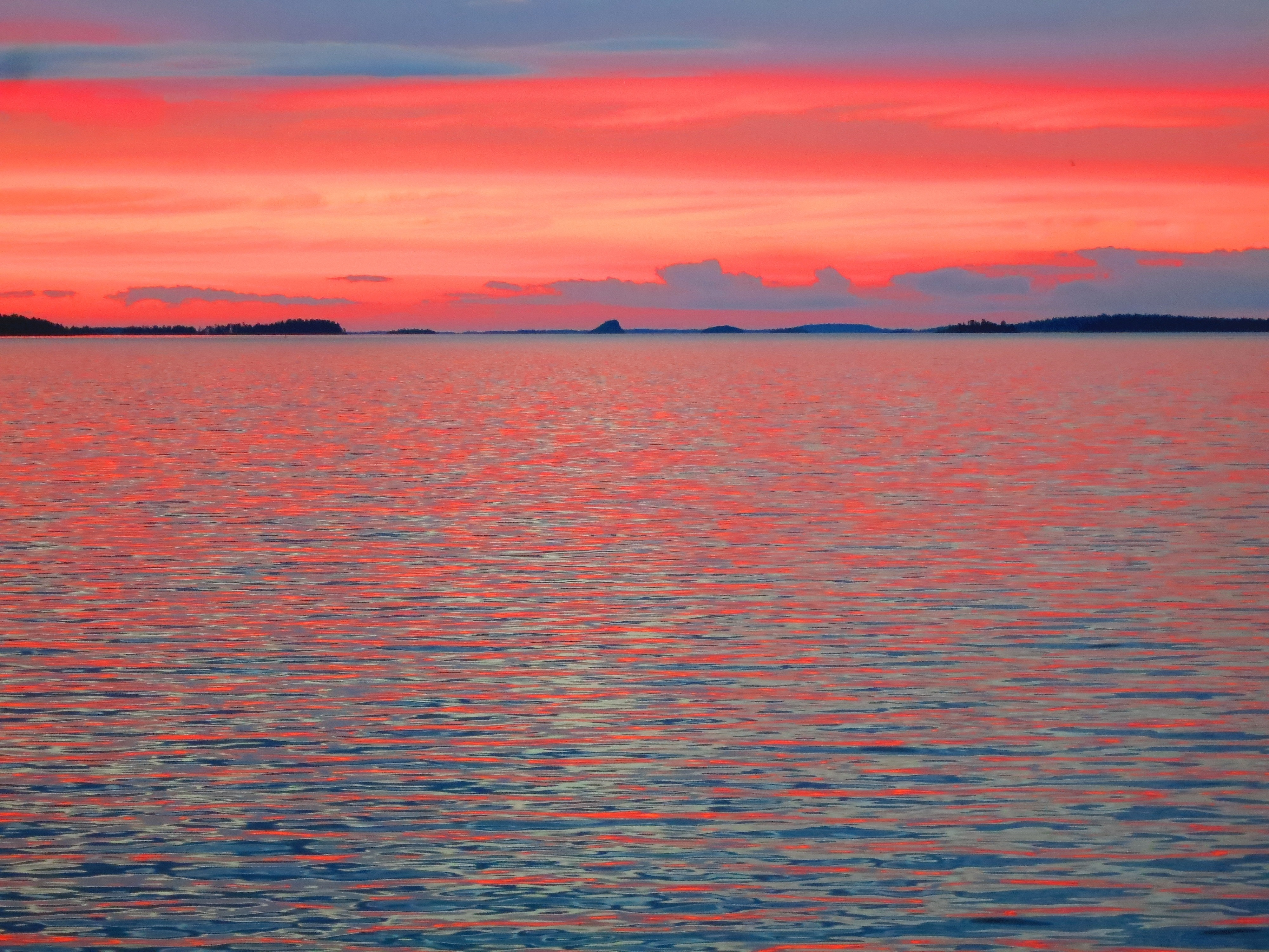 Lake Inari in summer night, a view from Uruniemi Peninsula to northeast. The blue triangle of the horizon centre is Ukonkivi – a rocky island, sacrificial site for Sami people. The picure is taken 2 h after sunset and 1 h before sunrise. (Lapland, Finland)